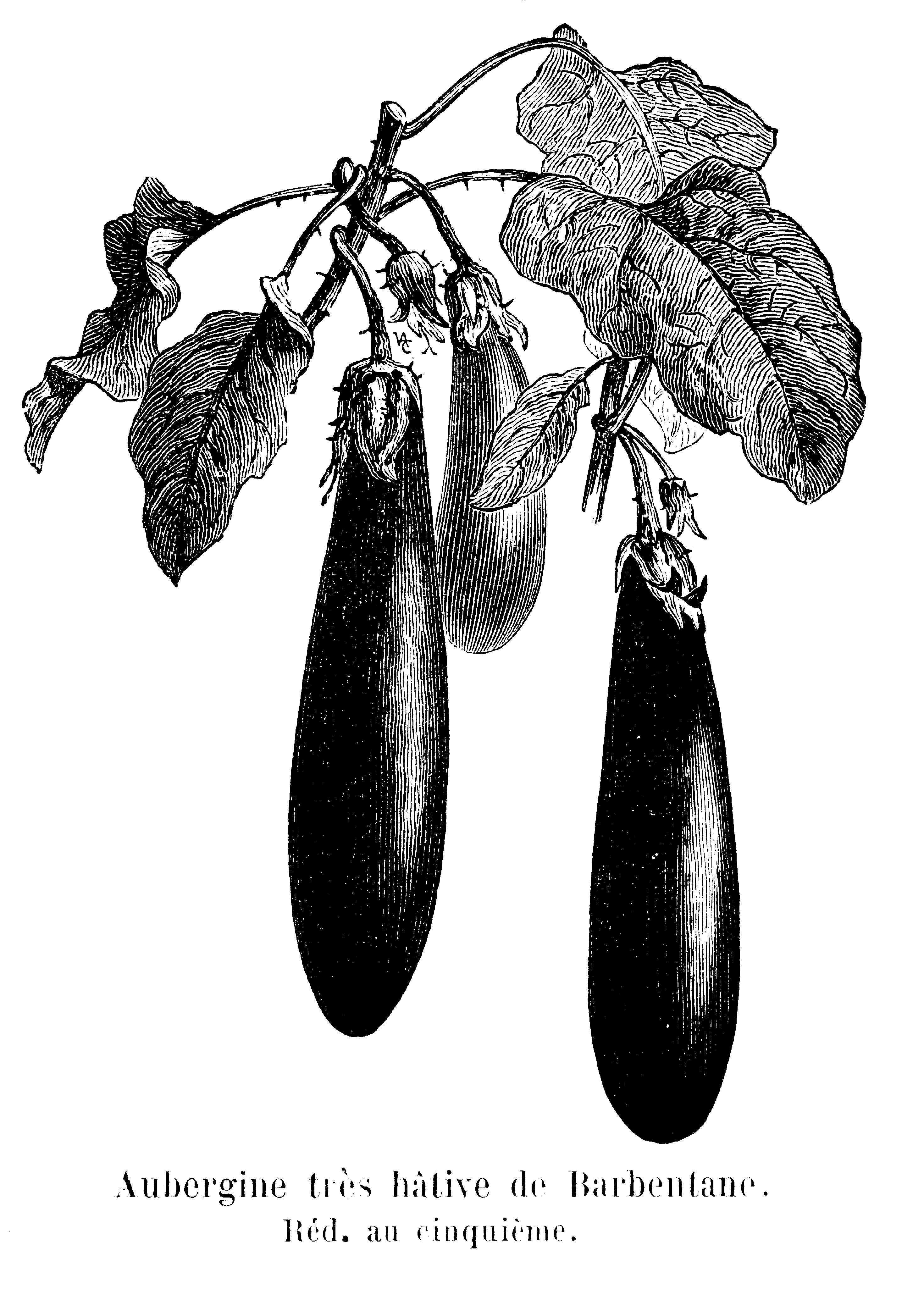 Vilmorin-Andrieux & Cie, 1904. Les plantes potagères. Description et culture des principaux légumes des climats tempérés. ed. 3. Paris, Vilmorin-Andrieux. fig., XX-804 p.